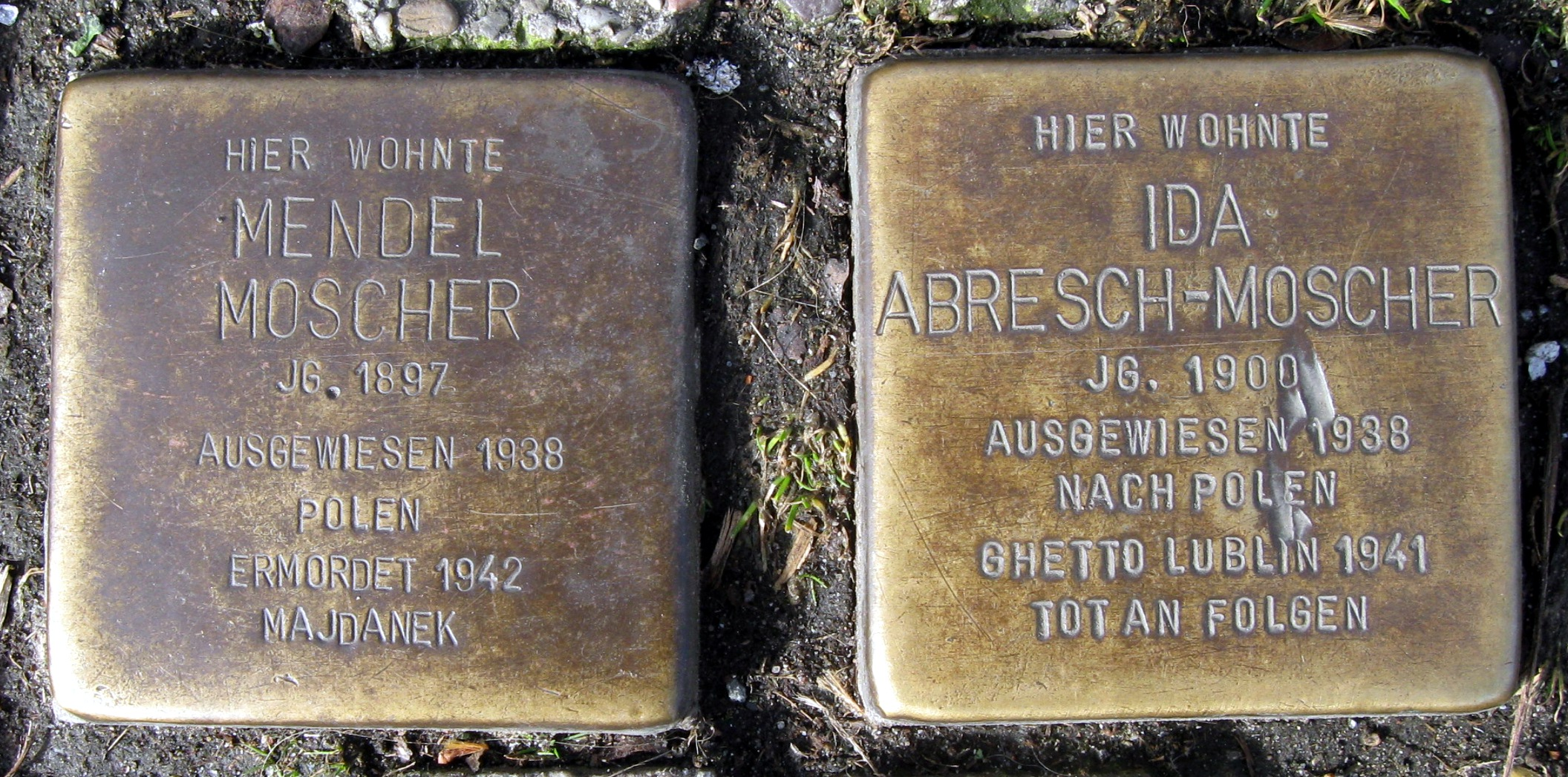 Stolpersteine at house Heiligegartenstraße 10 in Dortmund, Germany